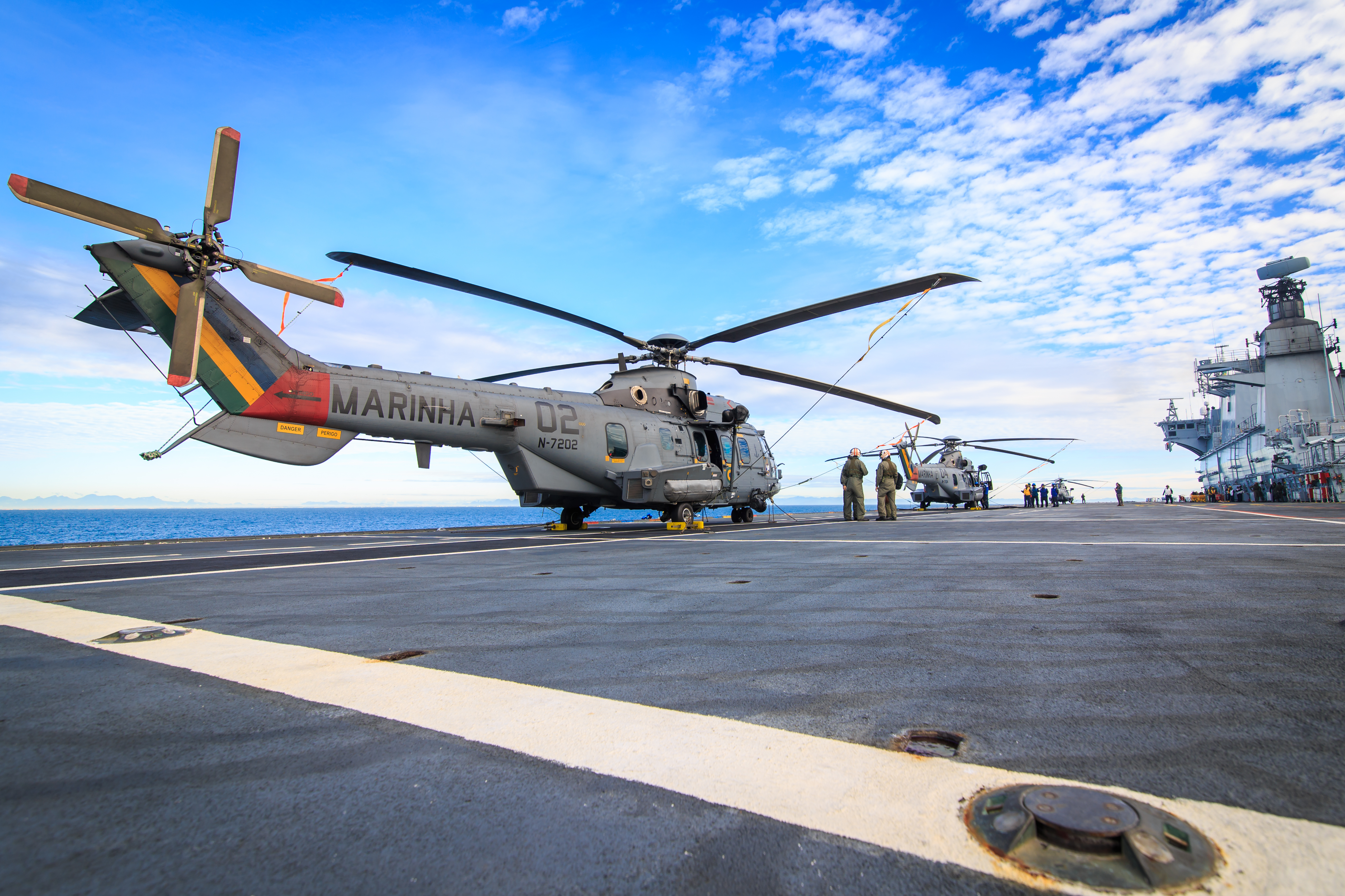 Foto: Alexandre Manfrim